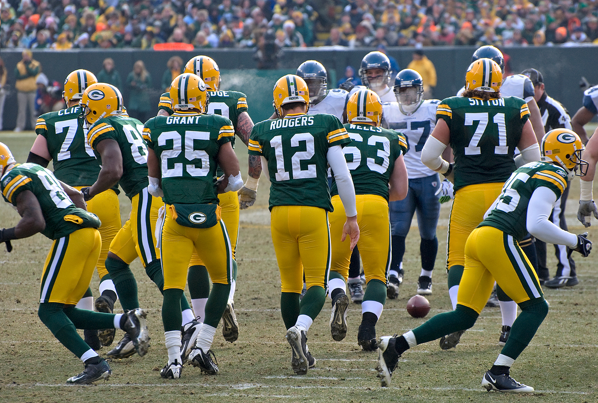 Seattle vs. Green Bay • December 27, 2009 at Lambeau Field in Green Bay, Wisconsin.